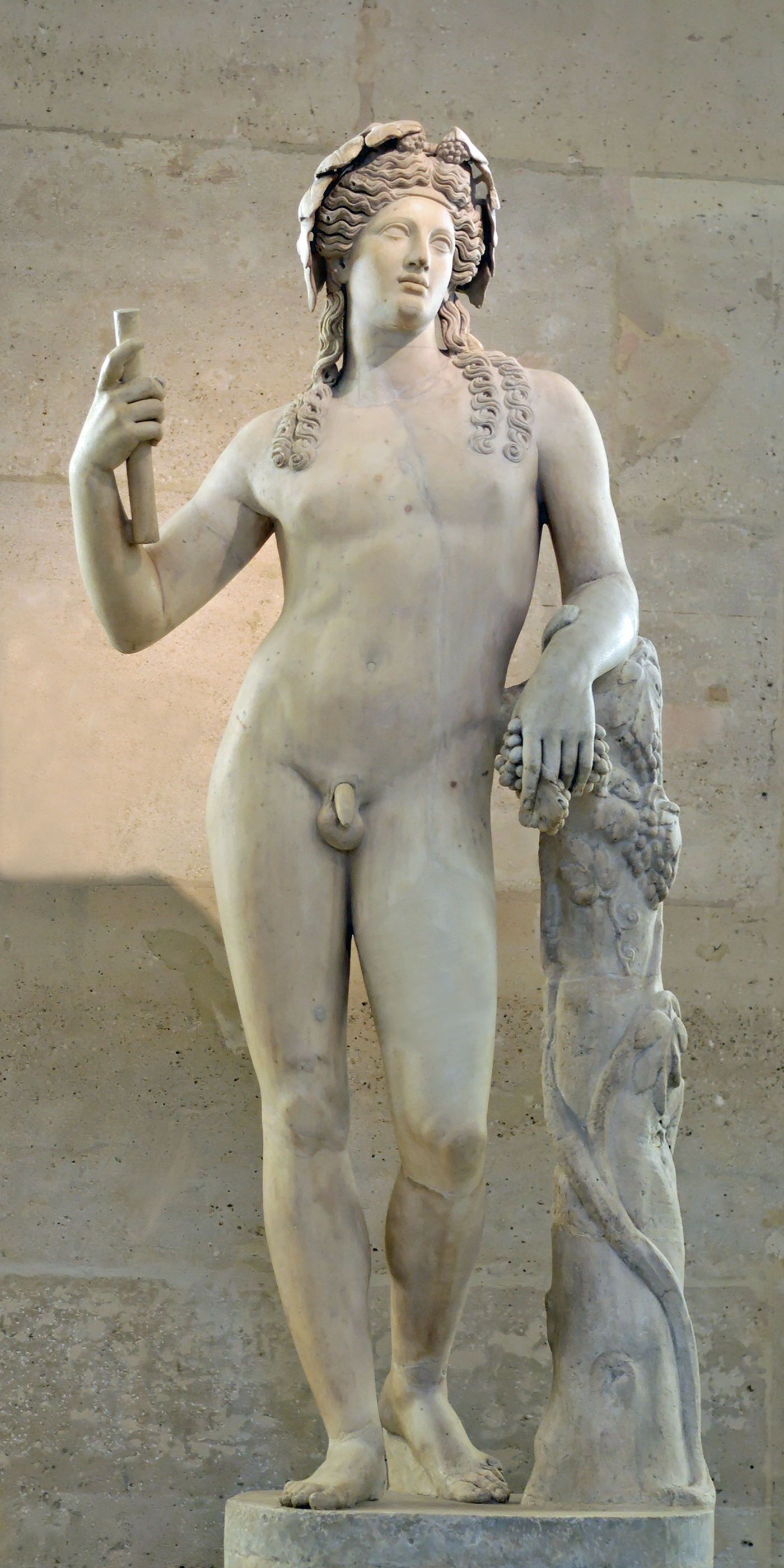 Statue of Dionysus. Marble, 2nd century CE (arms and legs were heavily restored in the 18th century), found in Italy.